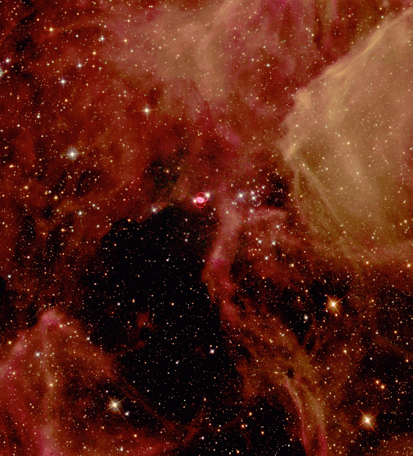 Glittering stars and wisps of gas create a breathtaking backdrop for the self-destruction of a massive star, called supernova 1987A, in the Large Magellanic Cloud, a nearby galaxy. Astronomers in the Southern hemisphere witnessed the brilliant explosion of this star on Feb. 23, 1987. Shown in this NASA Hubble Space Telescope image, the supernova remnant, surrounded by inner and outer rings of material, is set in a forest of ethereal, diffuse clouds of gas. This three-color image is composed of several pictures of the supernova and its neighboring region taken with the Wide Field and Planetary Camera 2 in Sept. 1994, Feb. 1996 and July 1997. The many bright blue stars nearby the supernova are massive stars, each more than six times heftier than our Sun. They are members of the same generation of stars as the star that went supernova about 12 million years ago. The presence of bright gas clouds is another sign of the youth of this region, which still appears to be a fertile breeding ground for new stars. In a few years the supernova's fast moving material will sweep the inner ring with full force, heating and exciting its gas, and will produce a new series of cosmic fireworks that will offer a striking view for more than a decade.